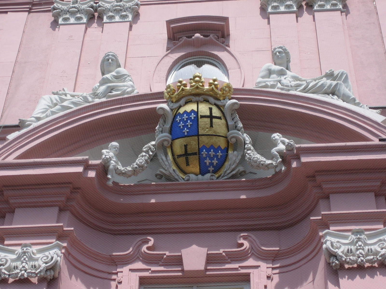 Arms of the Dalberg family on the Palais Dalberg in Mainz